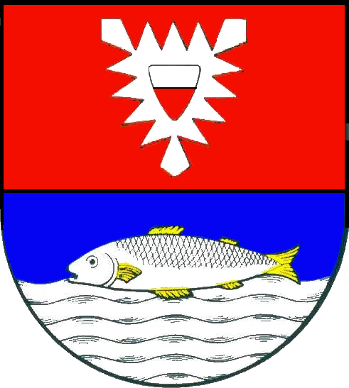 Coat of arms of the Stadt (town) Wilster in Schleswig-Holstein, Germany.